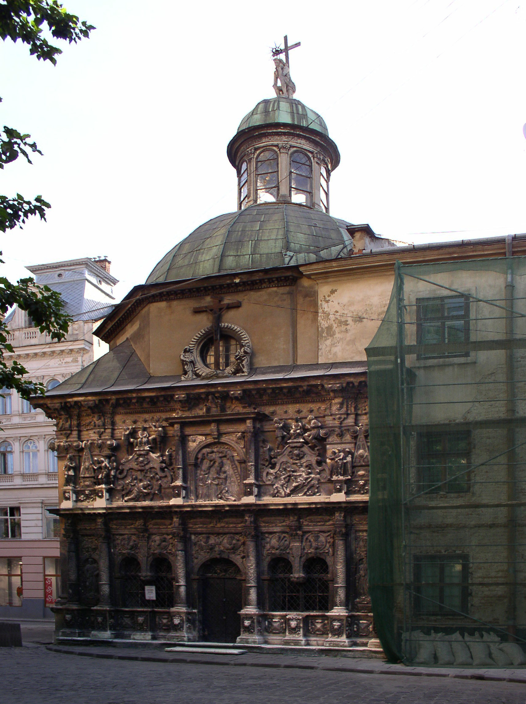 Chapel of Boim family. Lviv, Ukraine.